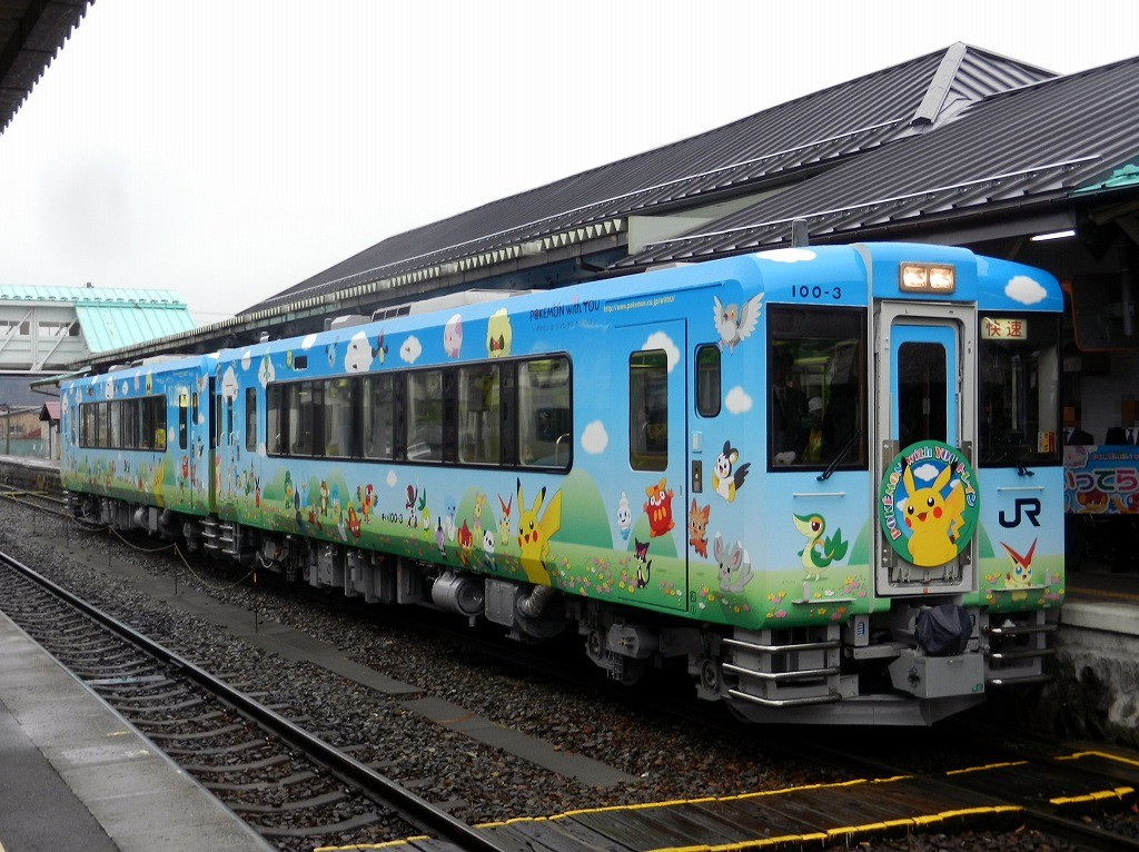 JR East KiHa 100 series 2-car "Pokemon With You Train" DMU (KiHa 100-1 + KiHa 100-3) at Kesennuma Station